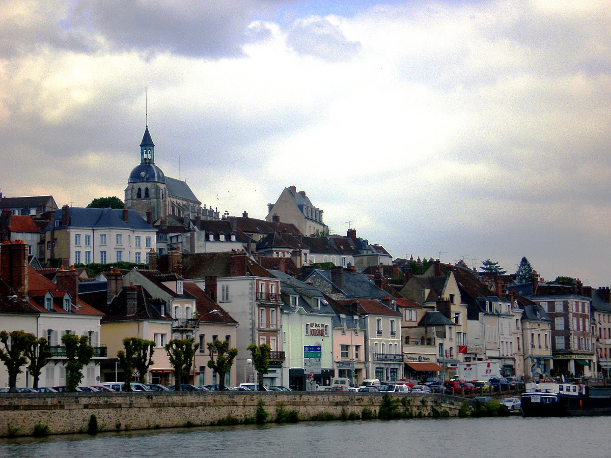 Joigny - France